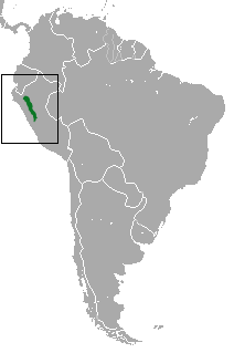 Peruvian Night Monkey (Aotus miconax) range